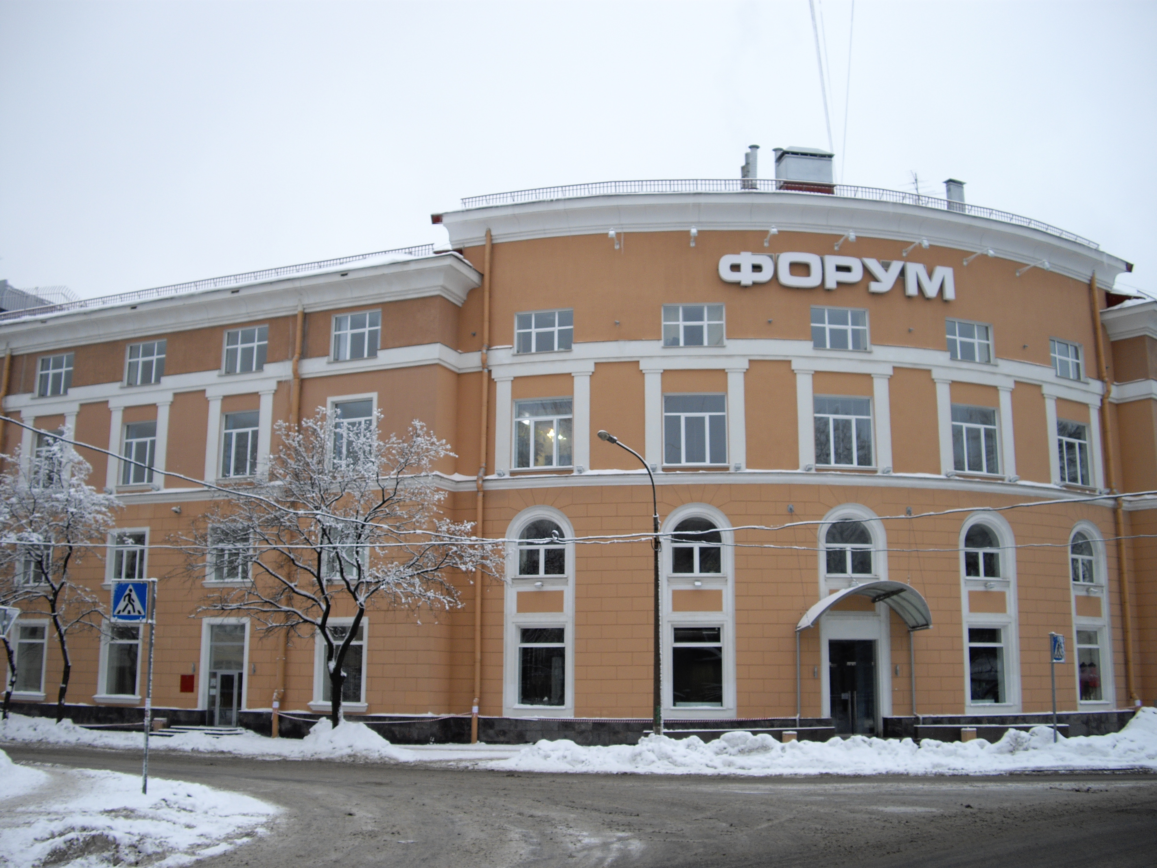 Former club building of Krasnoe Znamya (Red Banner) factory in Saint-Petersburg, Russia (1900s) reconstructed for a business center in 2000s.